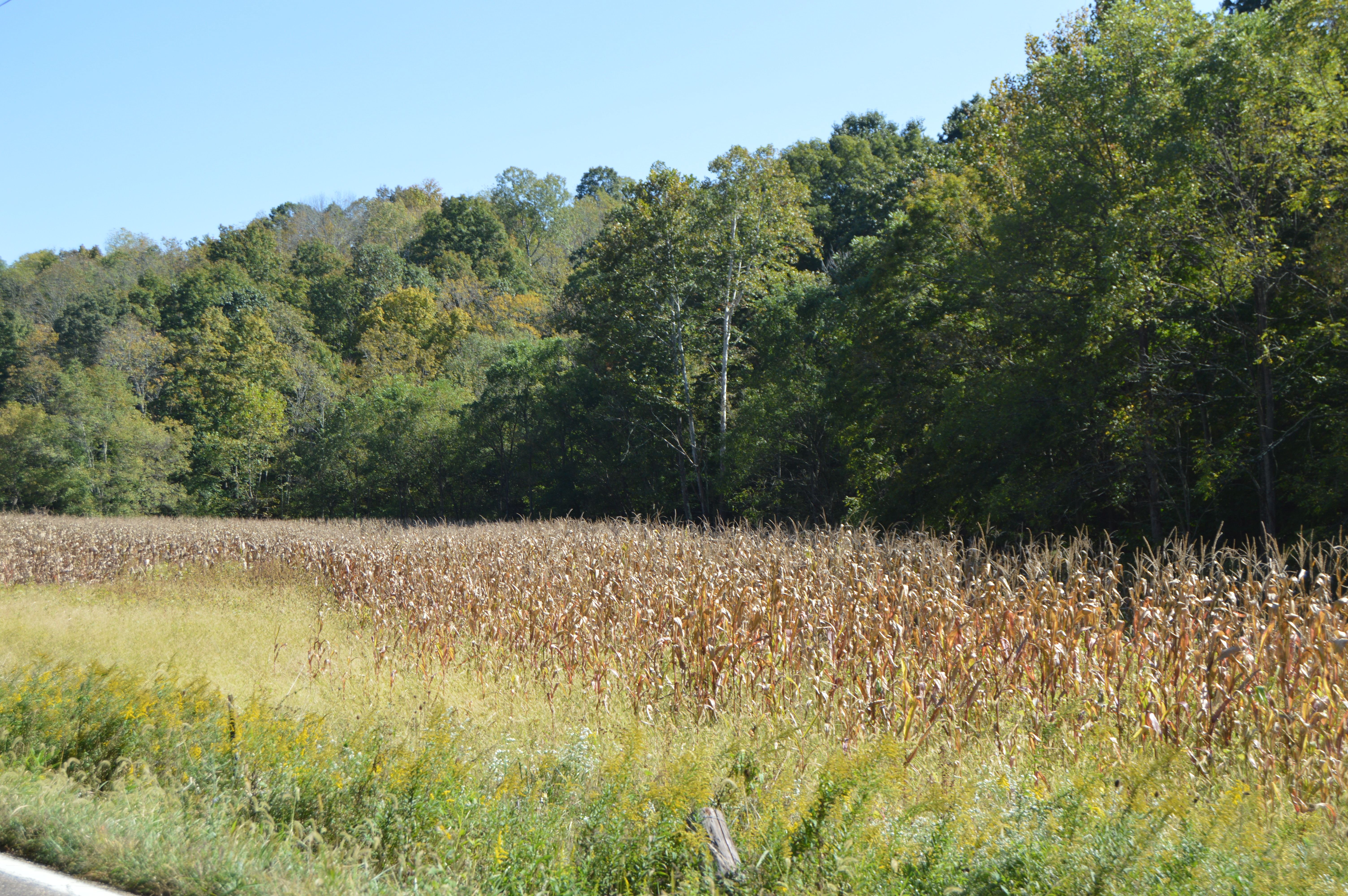 A cornfield on the southern side of State Route 681 in far western Orange Township, Meigs County, Ohio, United States.